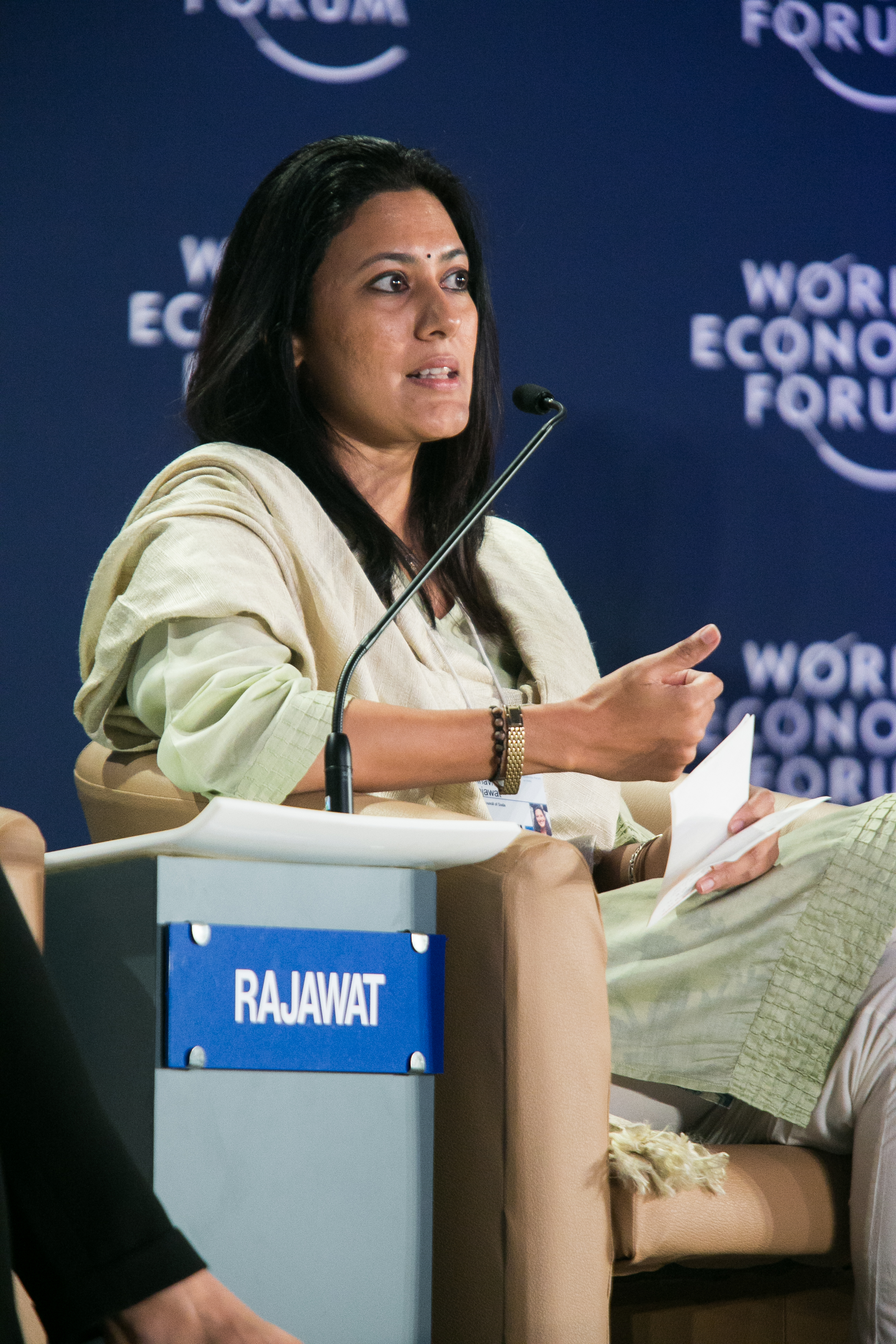 Chhavi Rajawat, Sarpanch of Soda, Village Council of Soda, India; Co-Chair of the World Economic Forum on India; Young Global Leader and at the World Economic Forum on India 2012. Copyright World Economic Forum / Photo by Benedikt von Loebell